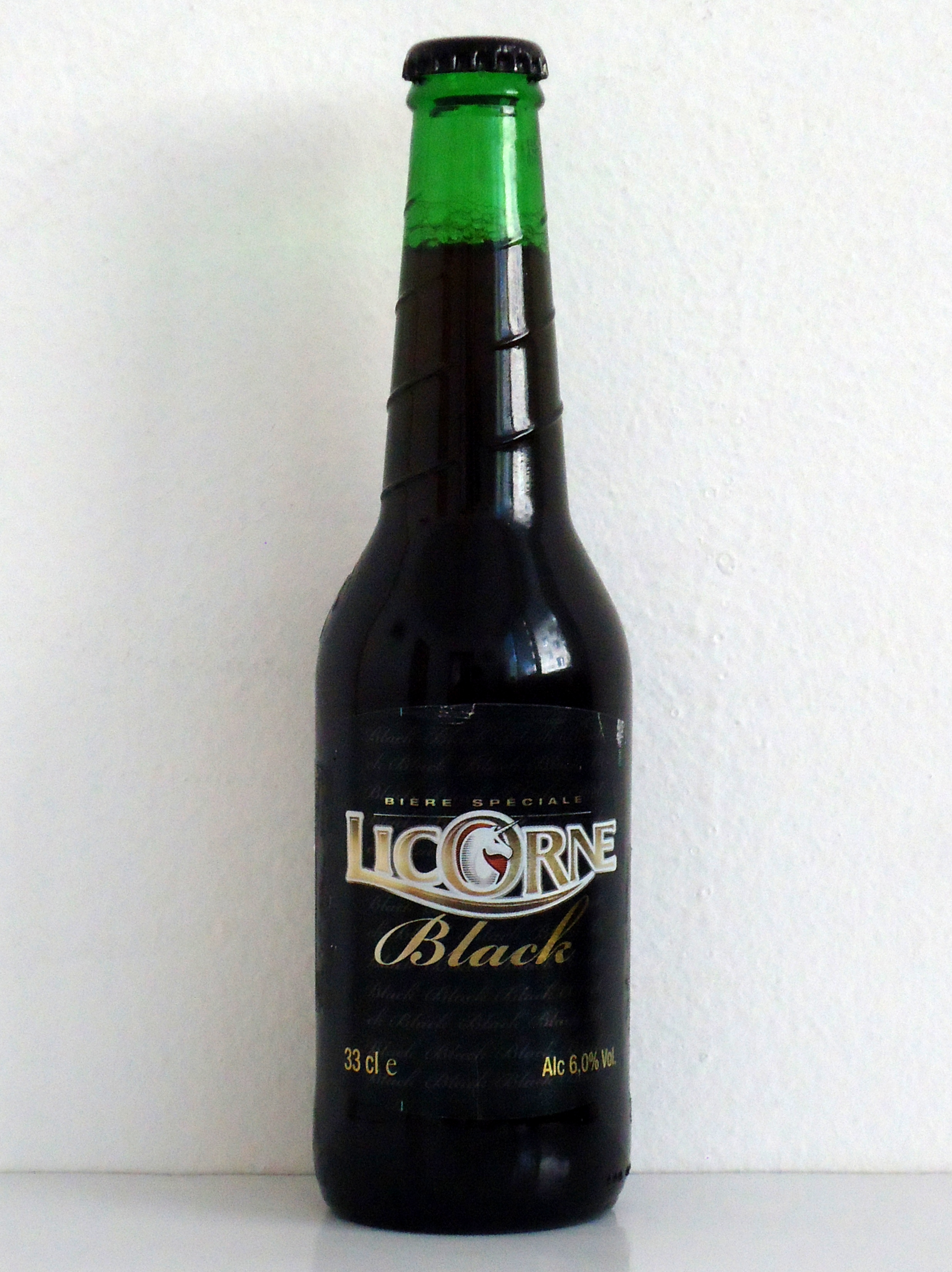 Licorne Black (beer)